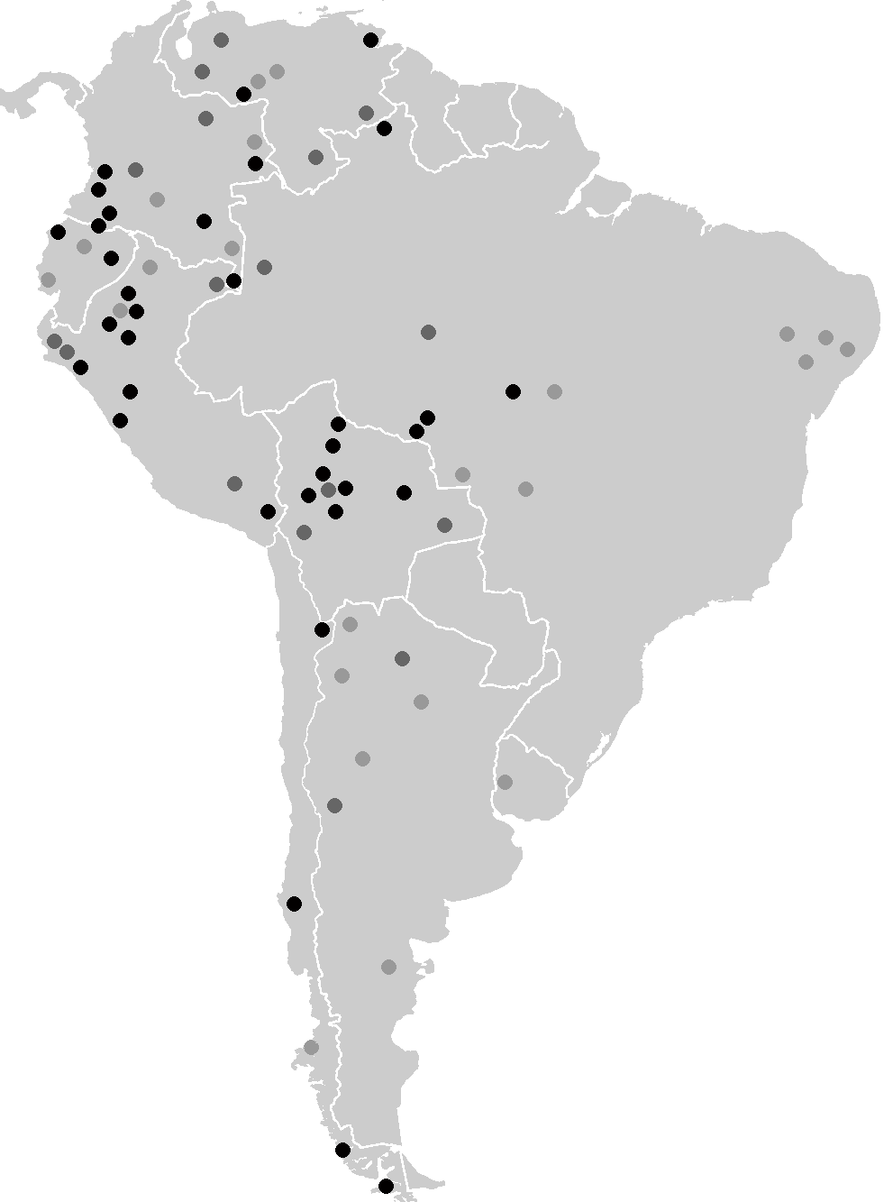 Black spot: (Almost certainly) Isolate language [IL] Dark grey: Isolate familiy [IF] (small families with 2 to 3 divergent languages/dialects) Clear grey: Unclassified languages [UL] / Doubtfull classification languages [DC] LIST OF SPOTS IN THE MAP Colombia: Andakí [UL] Andoke [IL] Betoi [IF] Camsá [IL] Cofán [IL] Paez (Nasa) [IL] Puinave [DC] Tikuna [IL] Tinigua-Pamigua [IF] Yurí [UL] Yarí [UL] Venezuela: Arutani-Sapé [IF] Guamo [UL] Jirajaran [IF] Timote-Cuica [IF] Otomaco [UL] Warao [IL] Yanomami [IF] Yaruro [IL] Ecuador Cofán [IL] Esmeraldeño [IL] Huancavilca [UL] Huaorani [IL] Panzaleo [UL] Perú Candoshi [IL] Culli [IF] Harakmbút [IF] Mochica [IL] Munichi [IL] Omurano [UL] Peba-Yagua [IF] Pukina [IL] Quingnam [IL] Sechura [IF] Tallancan [IF] Tekiraka [UL] Taushiro [IL] Urarina [IL] Bolivia Canichana [IL] Cayubaba [IL] Chiquitano [IL] Itonama [IL] Leco [IL] Mosetén [IF] Movima [IL] Uru-chipaya [IF] Yuracaré (IL) Zamucan [IF] Chile Chono [UL] Kawéskar [IL] Kunza [IL] Mapudungun [IL] Yahgán [IL] Argentina Comechingón [UL] Gününa küne [DC] Huarpean [IF] Humahuaca [UL] Kakán [UL] Lule-Vilela [IF] Sanavirón [UL] Uruguay Charruan [IF] Brazil Aikaná [IL] Baenã [UL] Fulniô [DC] Guató [DC] Irantxe [UL] Katukinan [IF] Kwazá [IL] Máku [IL] Mura-Pirahã [IF] Ofayé [DC] Pankarurú [UL] Tushá [UL] Tarairiú [UL]